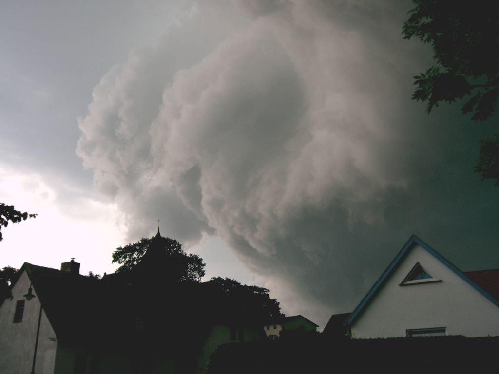 Rolling thunder clouds, storm in July 2005. Bobbin, upper village.